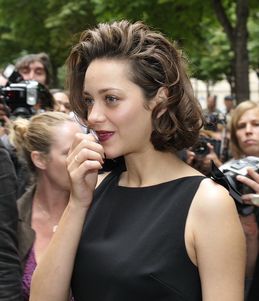 Actress Marion Cotillard — People aux défilés de Haute-Couture, Paris, le 6 Juillet 2009.Collection Automne-Hiver 2009/2010.